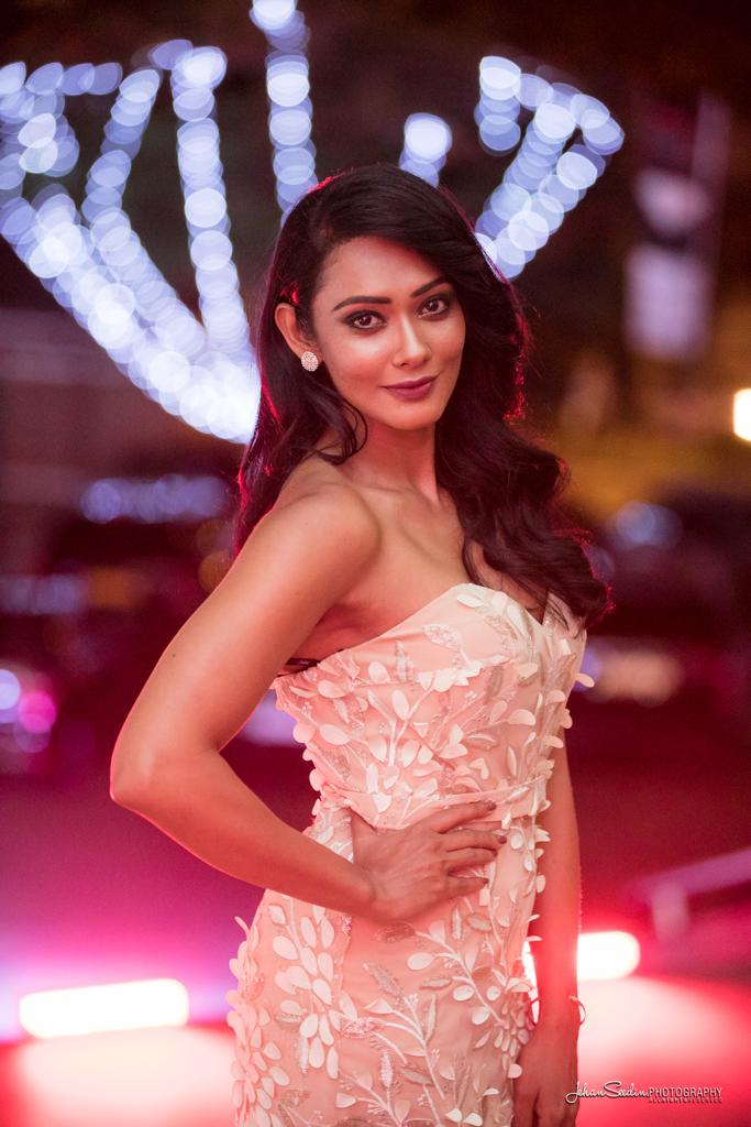 picture taken at Raigam Tele awards 2018 nominated most popular actress ( Koombiyo)